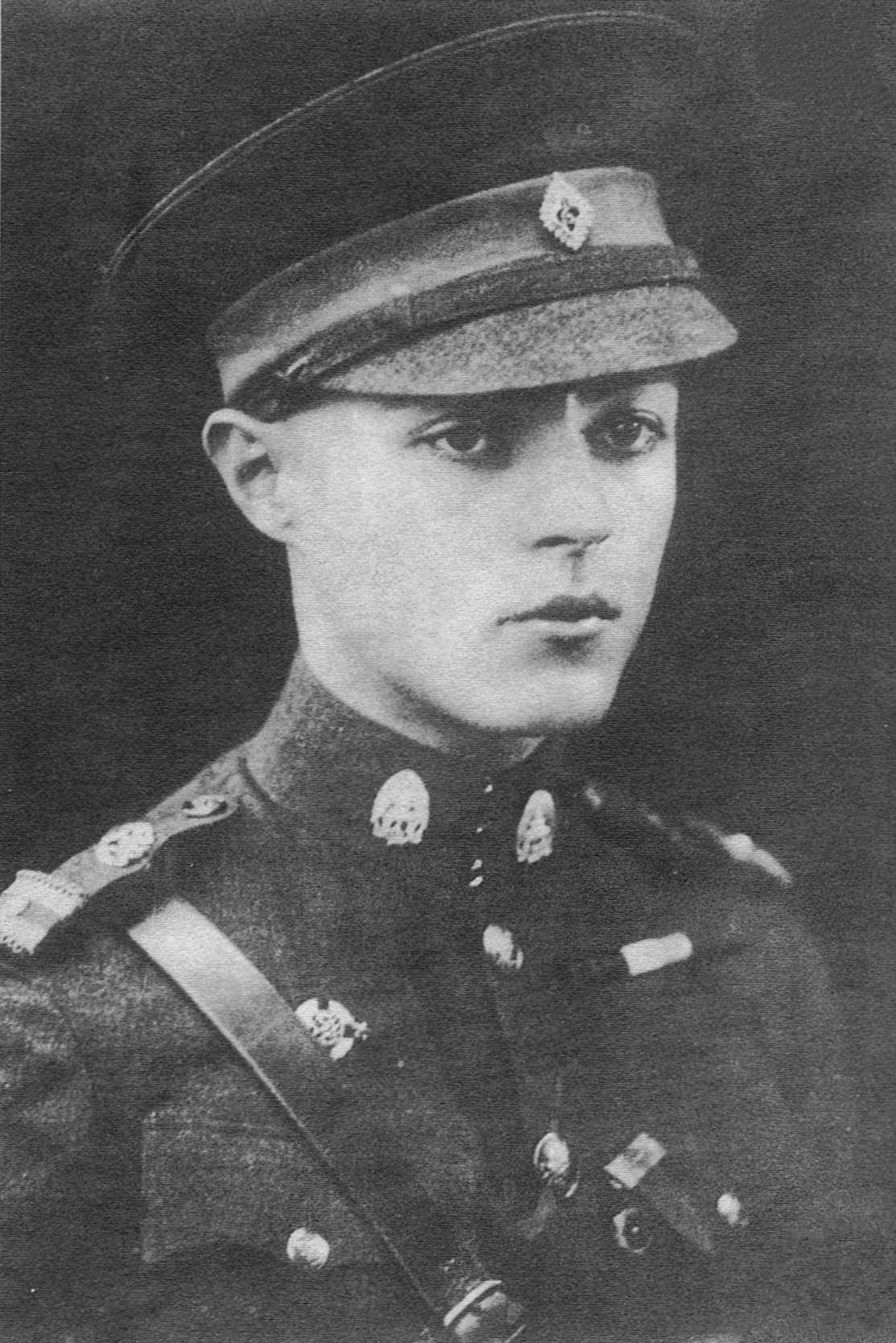 Prince Chula Chakrabongse